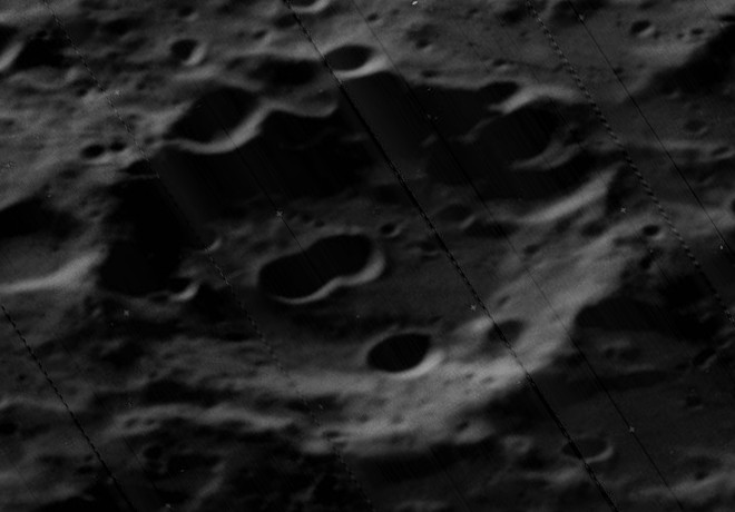 Oblique view of Sechenov, on the far side of the moon, facing west. Dark diagonal lines are artifacts of reprocessing.